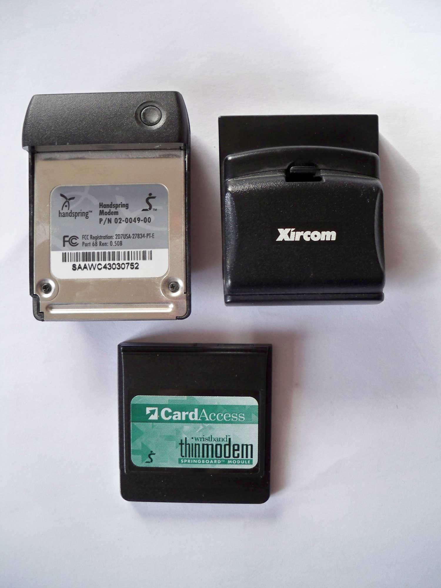 Springboard Expansion modules for PDA Handspring Visor: Modem